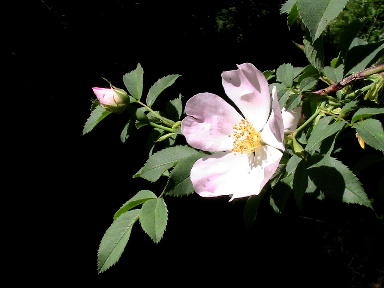 Rosa canina . In Torà (Segarra - Catalunya). To 650 m. altitude